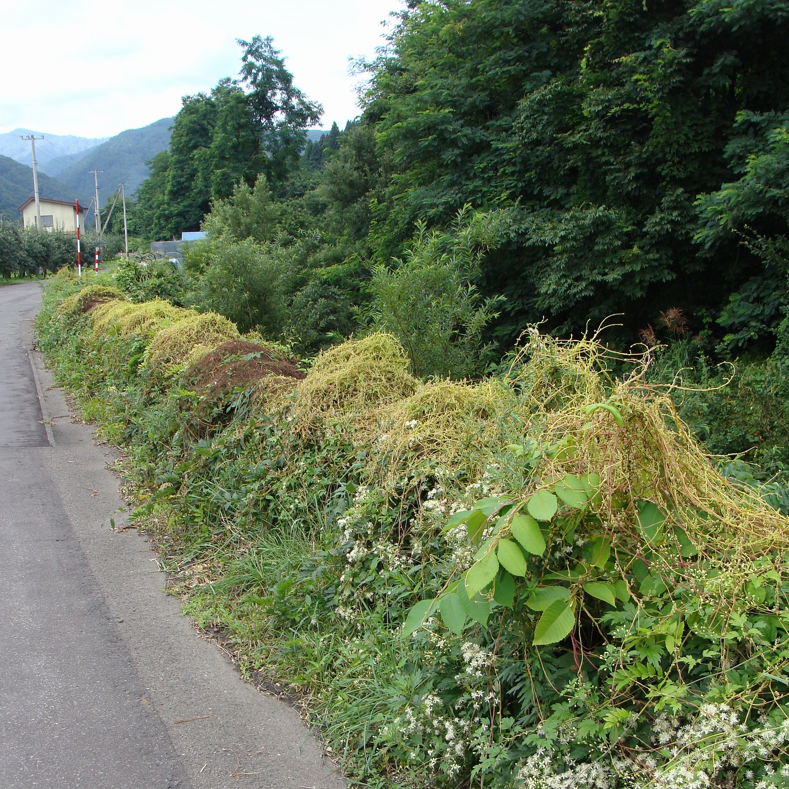 Cuscuta japonica Choisy （ Nenasi Kazura ）